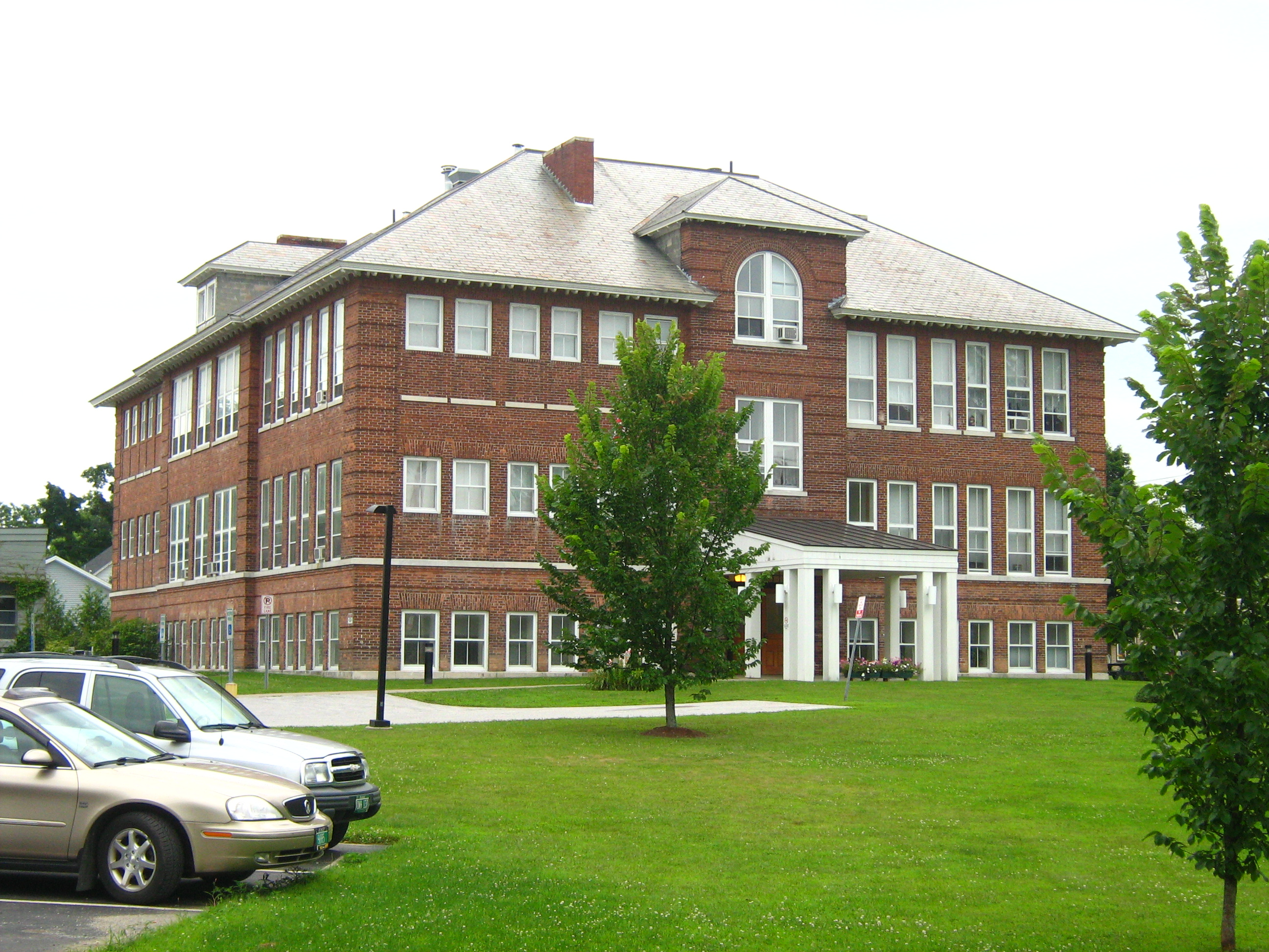 Swanton School in Swanton, Vermont. Former elementary school now houses a community health center on the ground floor, with senior apartments on upper floors.